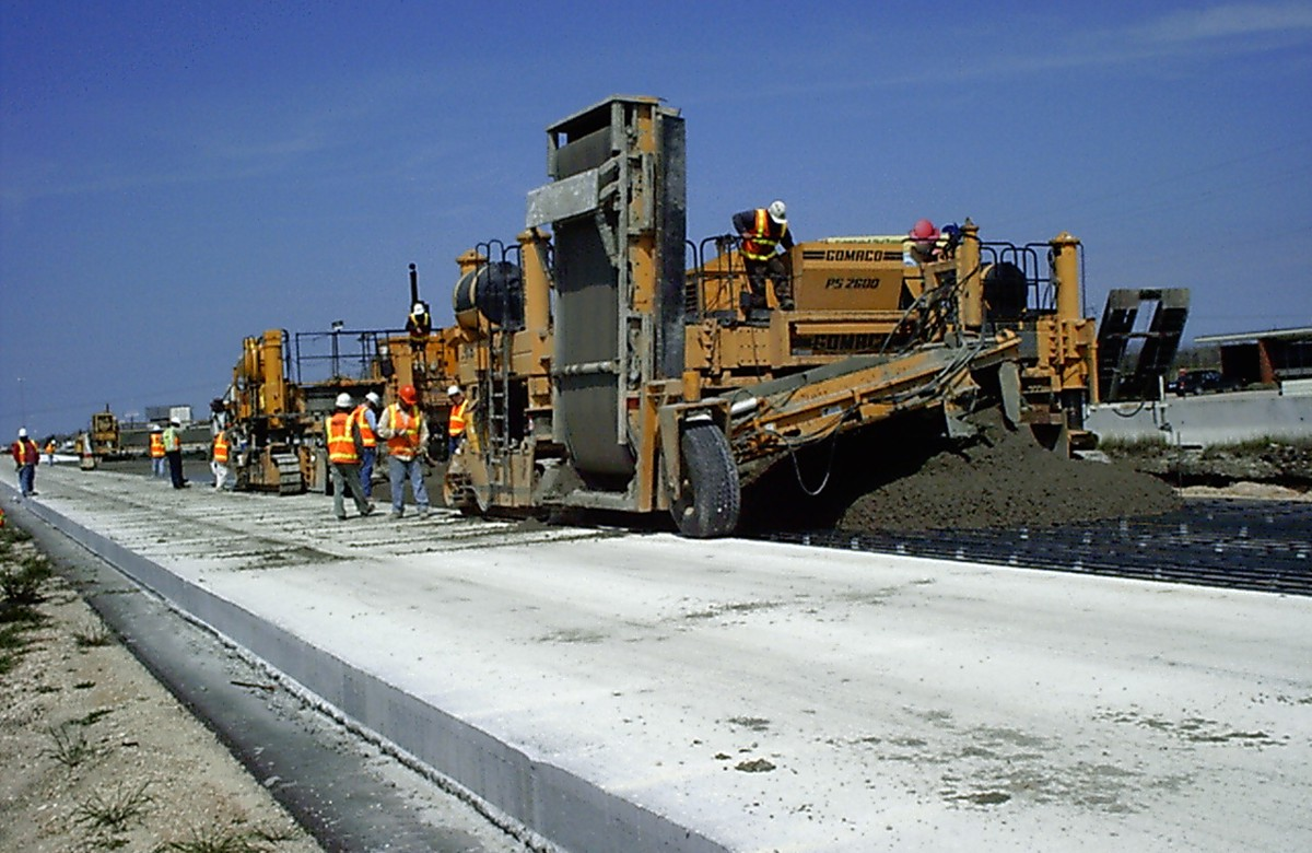 Photographic record taken from an academic paper (2010) written by Ronin and Elfgren. The photo records the large-volume application of EMC made from fly ash onto IH-10 (Interstate Highway), Texas, United States. EMC replaced not less than 50% of the Portland cement in the concrete poured — circa 2.5 times the amount of raw fly ash typically used. The project was approved by TxDOT (Texas, U.S.A) and the U.S. Federal Highway Administration (see, accompanying text in this section).